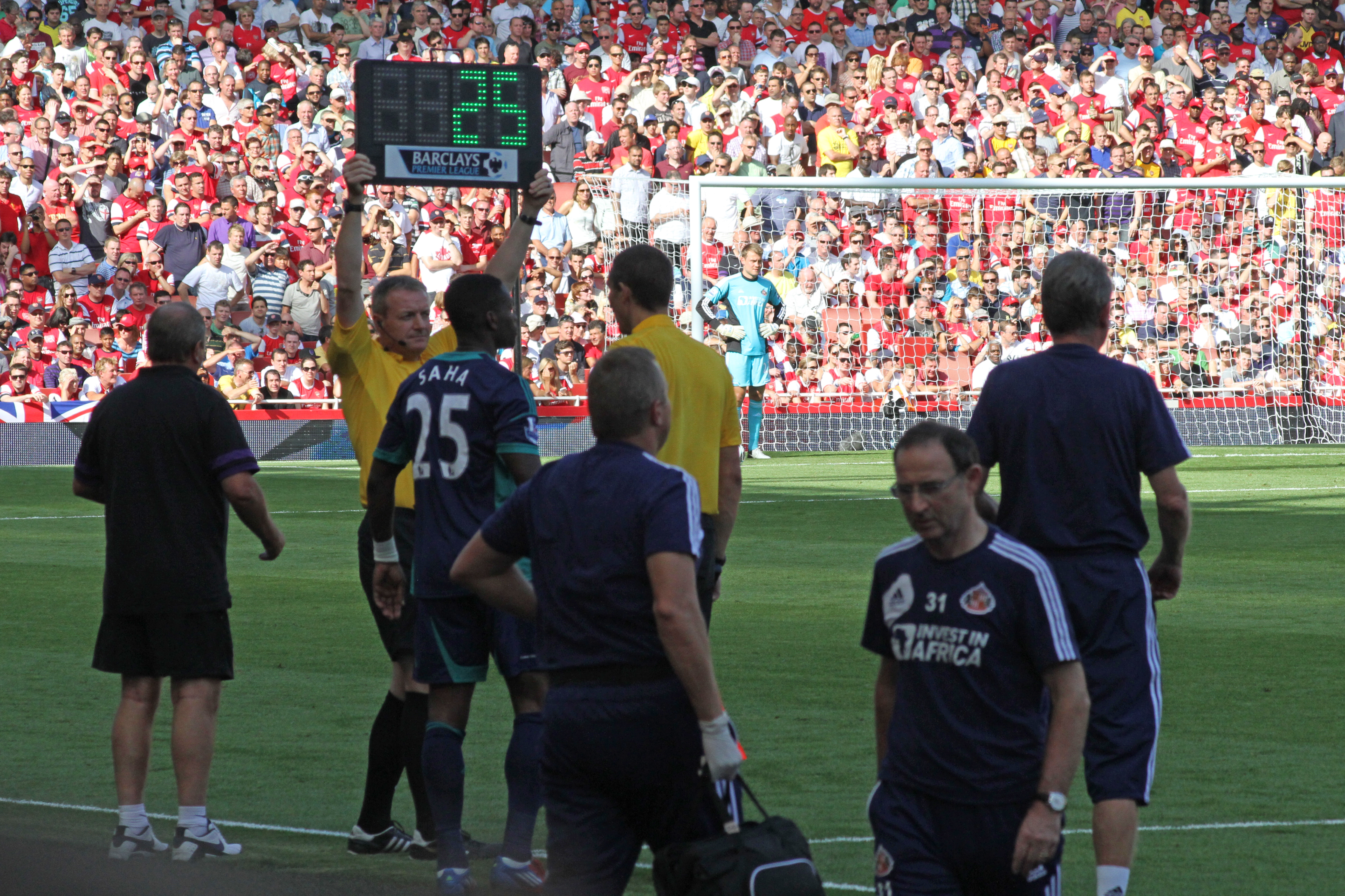 Louis Saha makes his debut for Sunderland